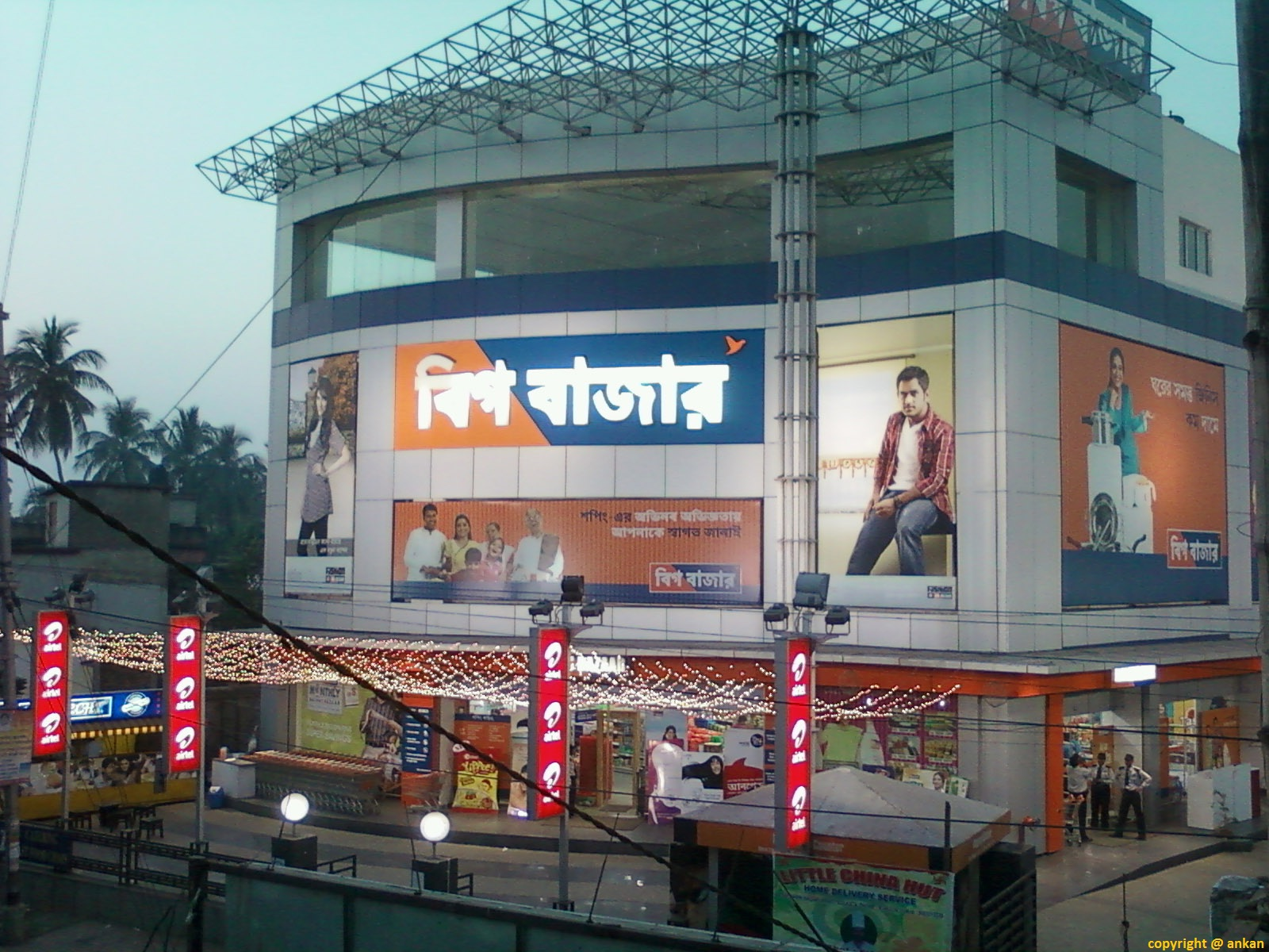 its the picture of birati bigbazaar